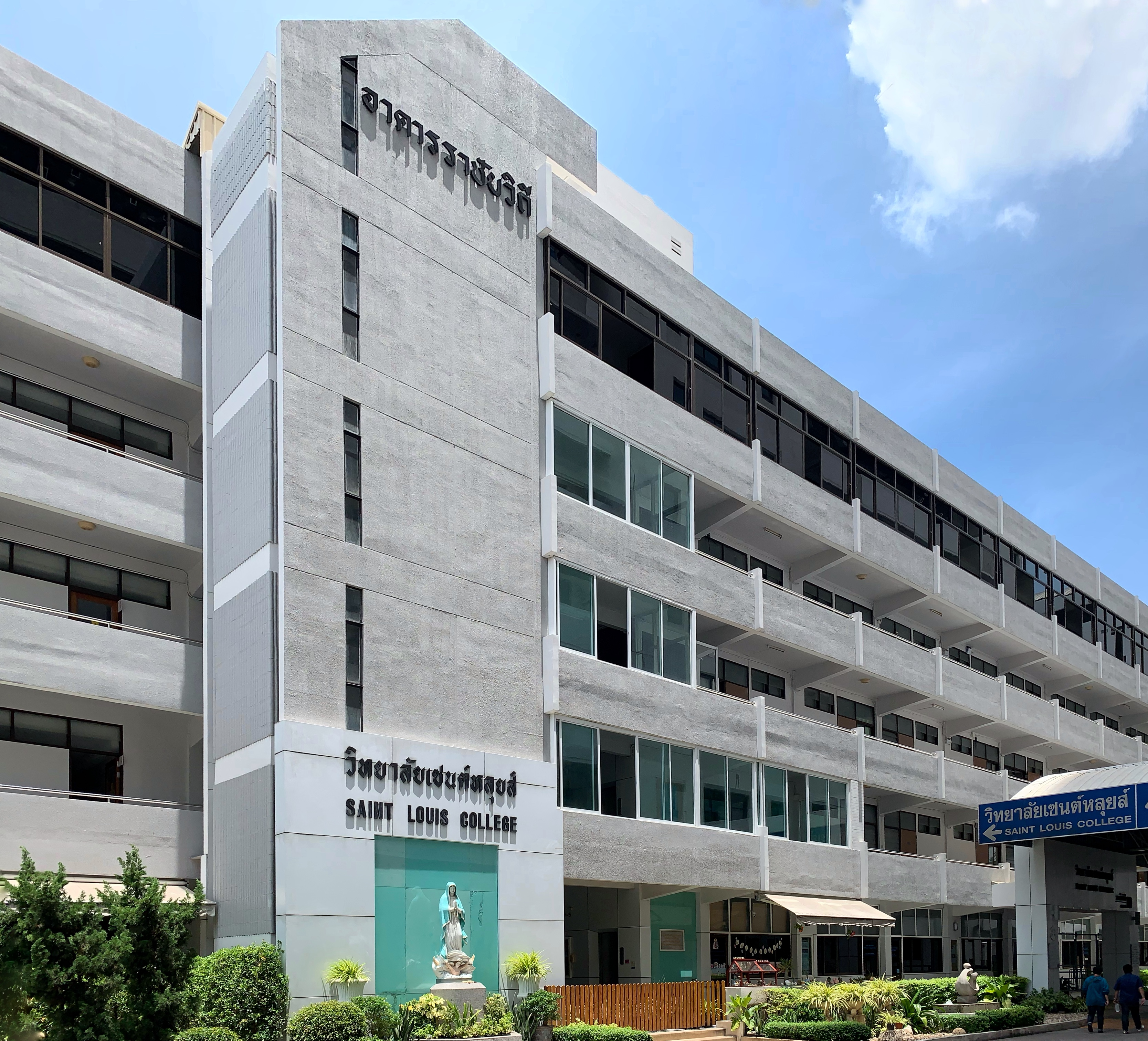 Saint Louis College Bangkok